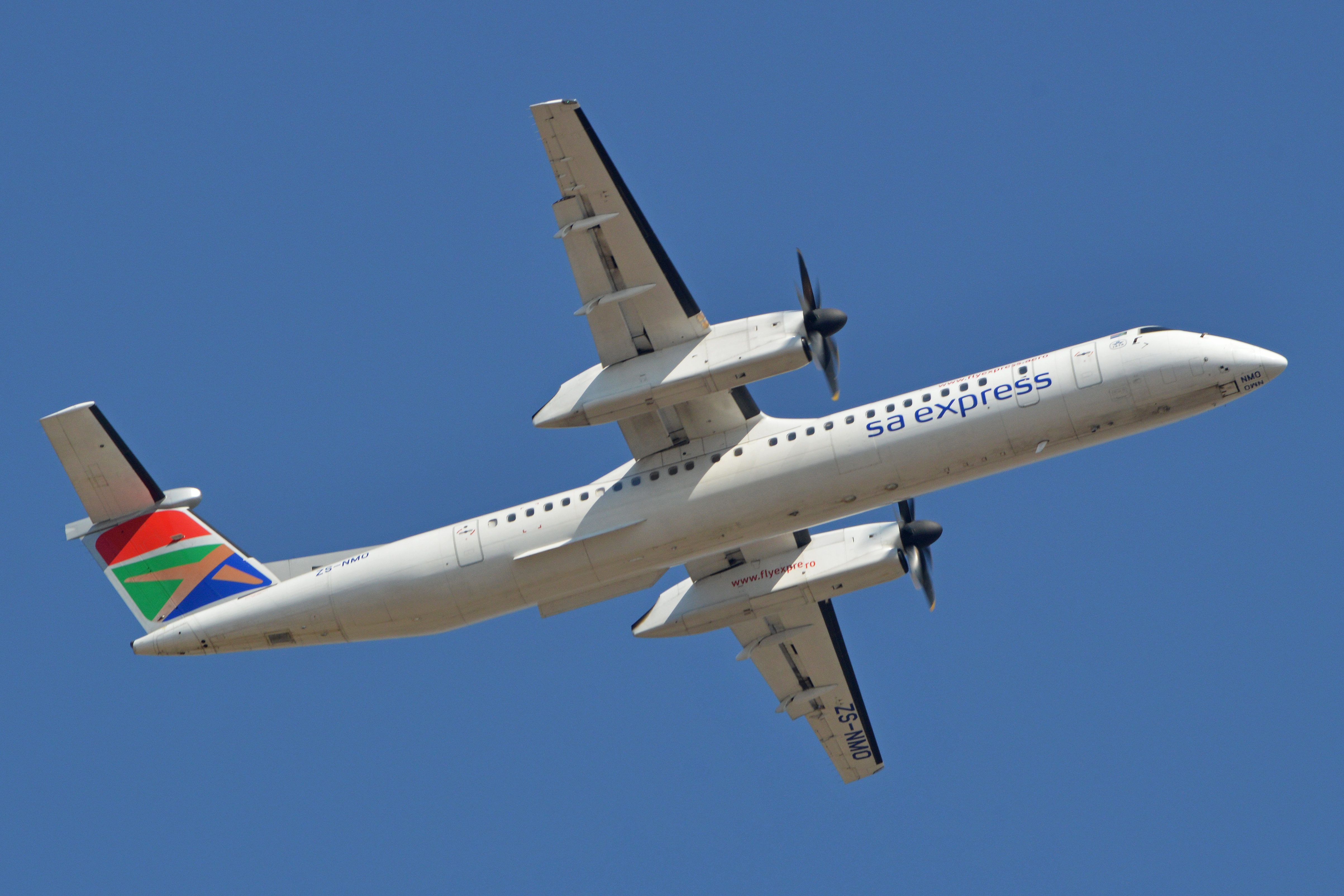 c/n 4122. Built 2006. Seen departing O.R. Tambo International Airport, Johannesburg, South Africa. 16-9-2014